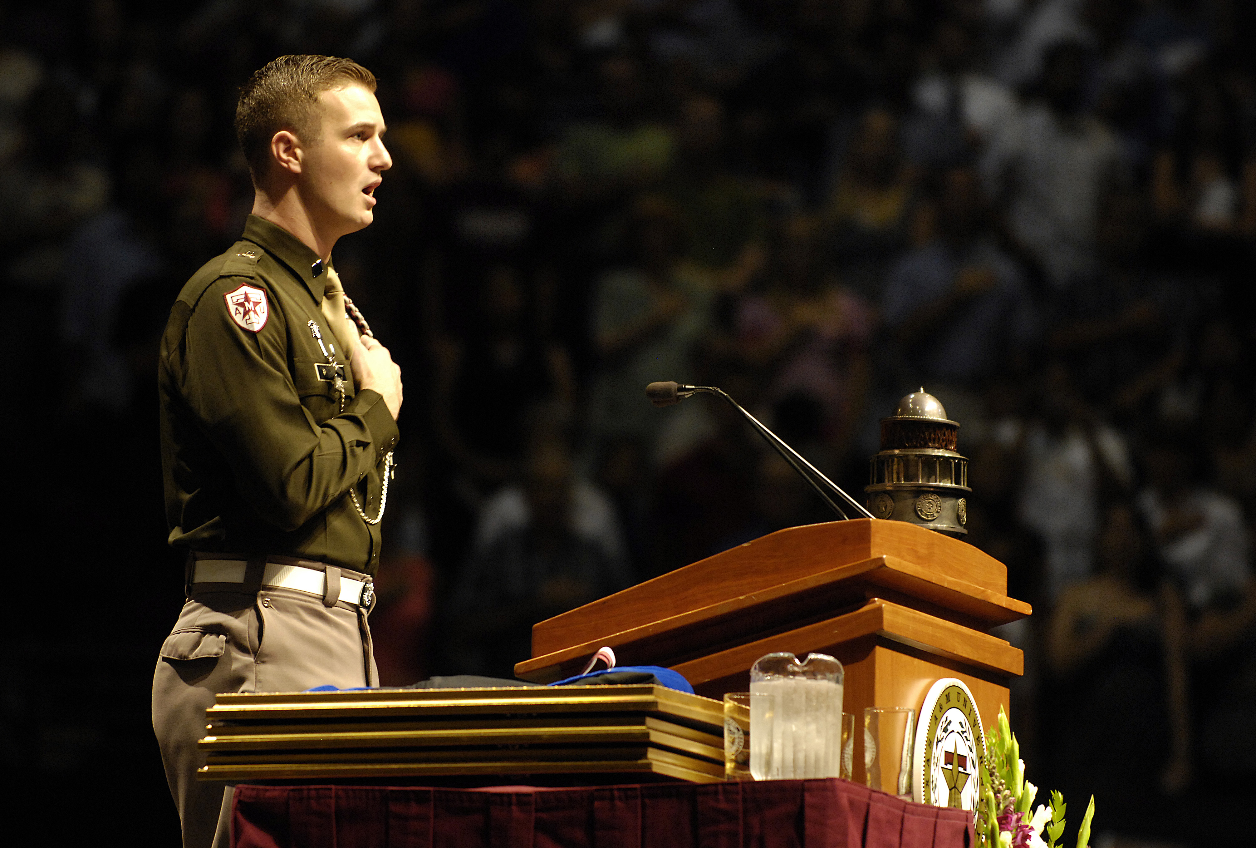 A member of the Corps of Cadets sings the national anthem during the commencement ceremony at Texas A&M University, Aug. 10, 2007.